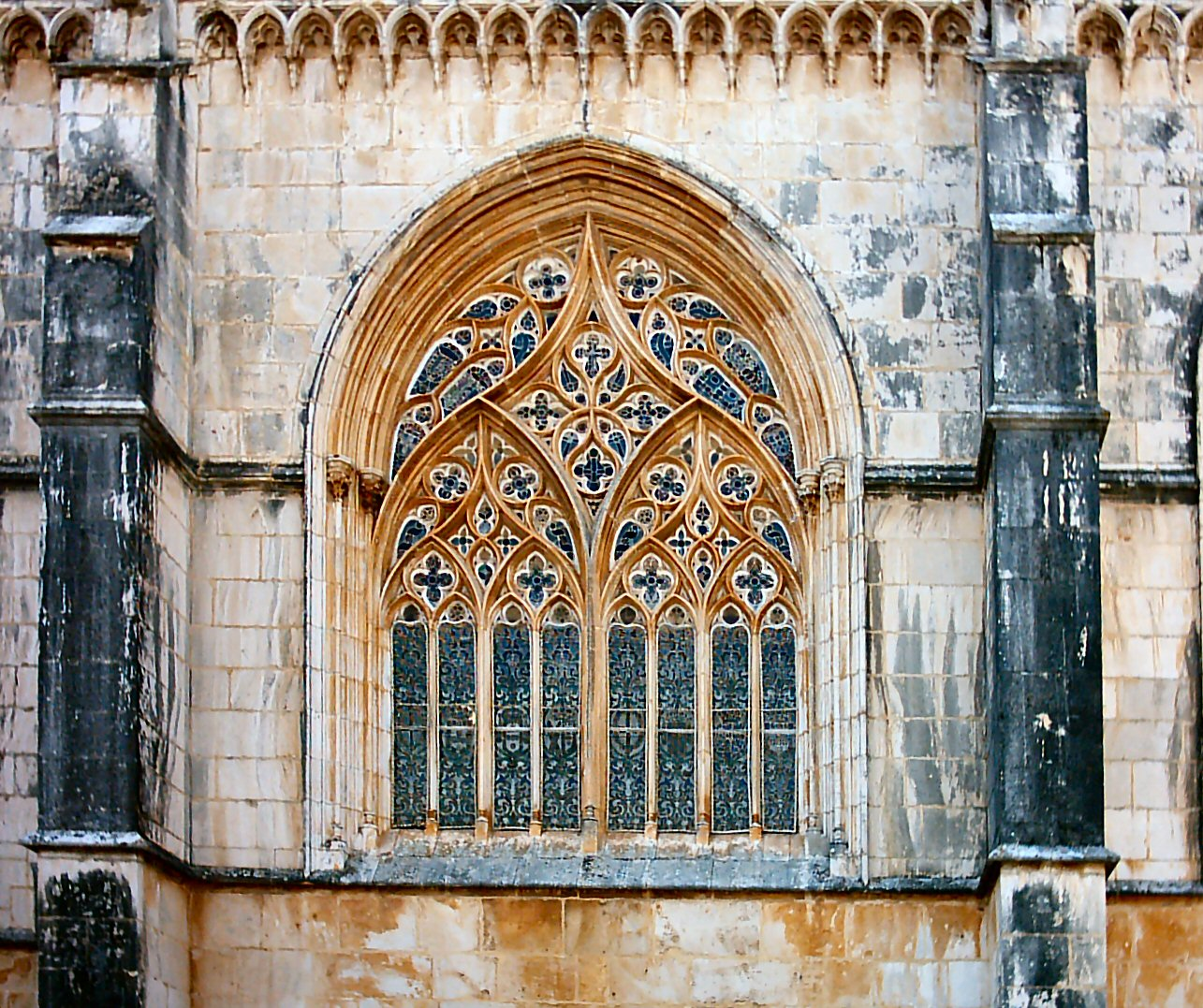 Traceried windows by Huguet, Mosteiro da Batalha, Portugal